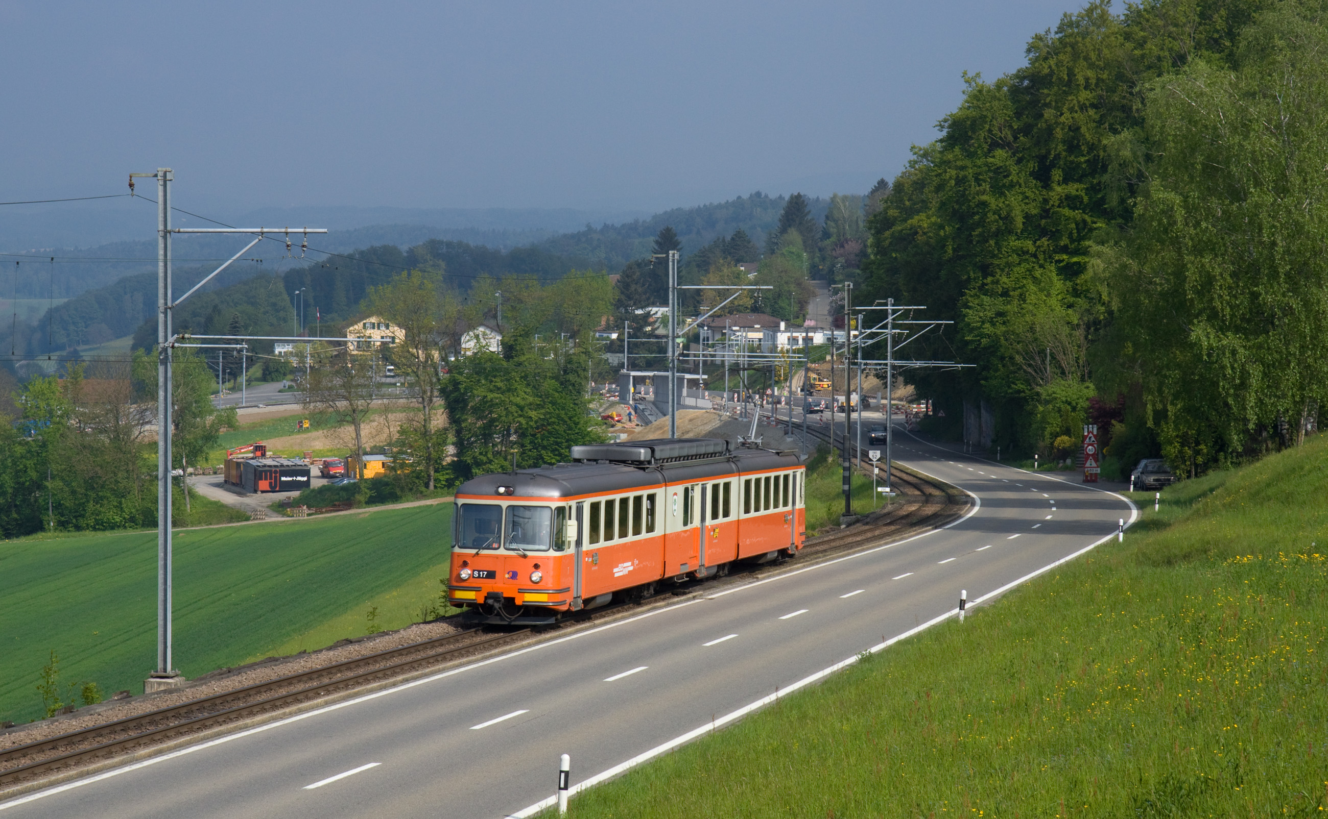 Bremgarten-Dietikon-Bahn train type BDe 8/8 climbing the Mutschellen pass, between the stops Heinrüti and Belveder. Heinrüti stop can be seen in the background.